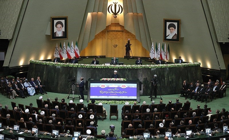 Second inauguration of Hassan Rouhani at the Parliament of Iran